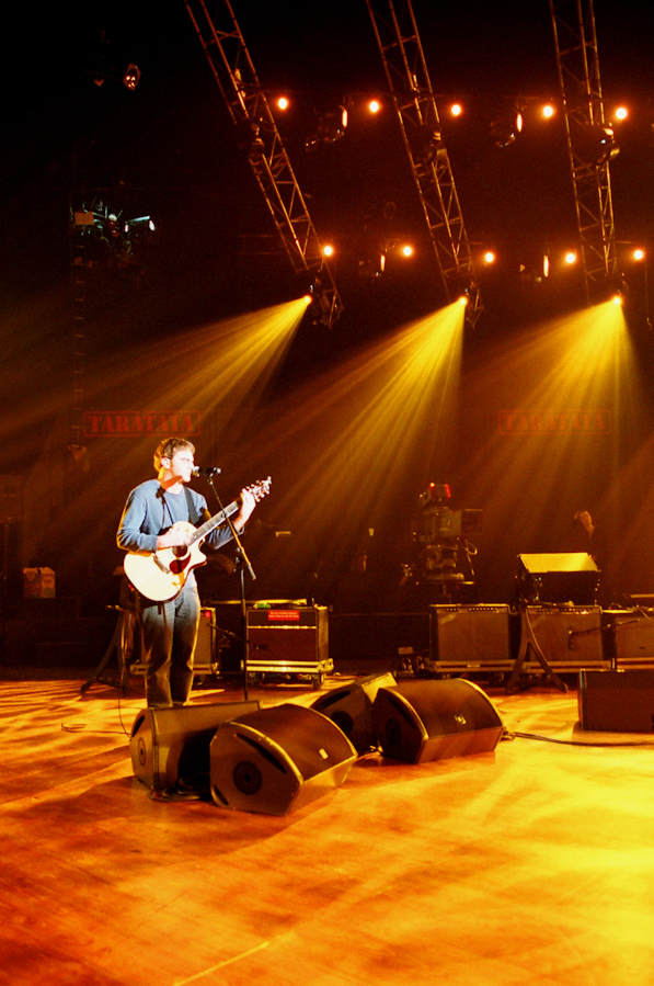 Photo of Roman Madrolle